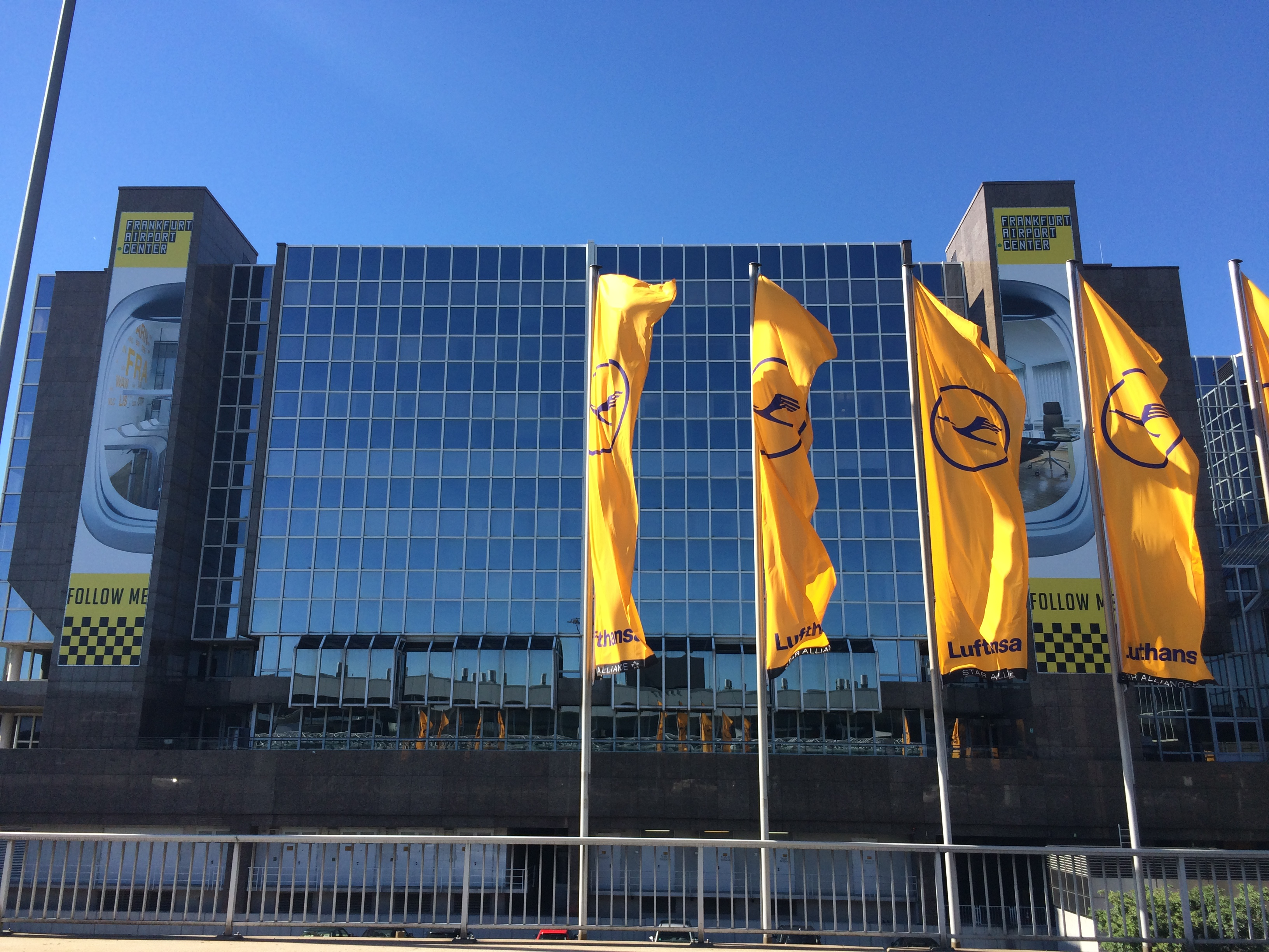 Frankfurt Airport Center (FAC)